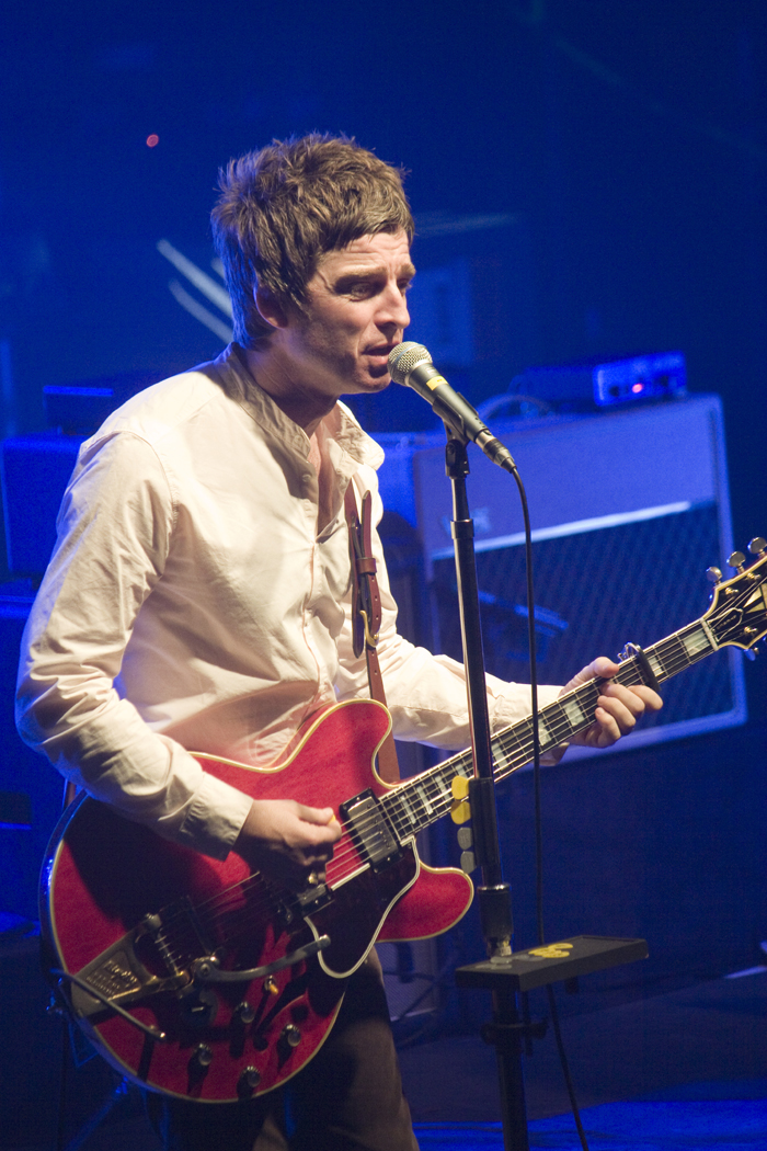 Noel Gallagher and the High Flying Birds on stage at Razzmatazz, Barcelona, Spain.